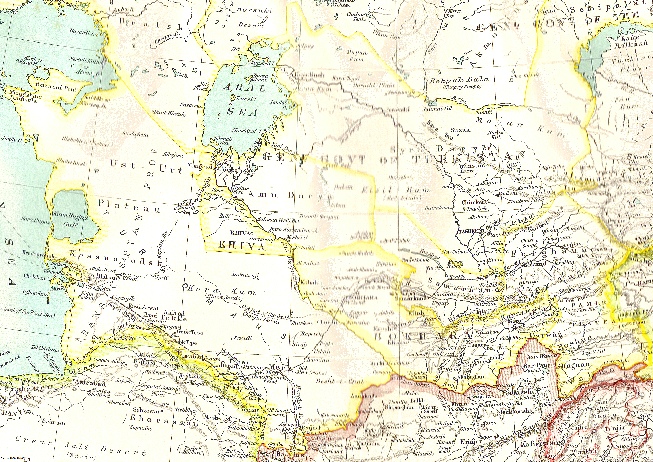 A 1903 map of Central Asia, including Central Asian Russia.